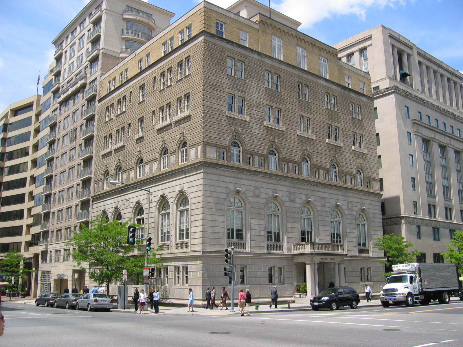 Former location of the University Club and headquarters of the United Mine Workers of America, 900 15th Street NW, Washington, D.C. The building, now used for residential purposes, is a National Historic Landmark.